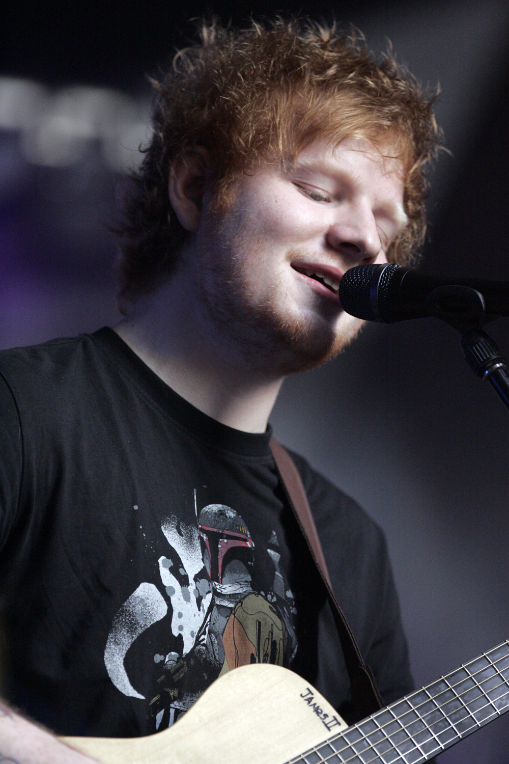 Ed Sheeran